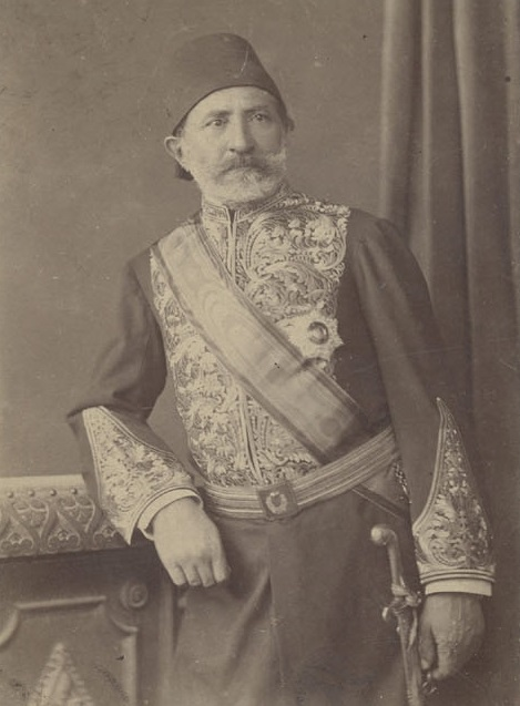 Vaso Pasha (1825-1892) - albanian writer, poet and publicist. Served as Governor of Lebanon from 1882 until his death..